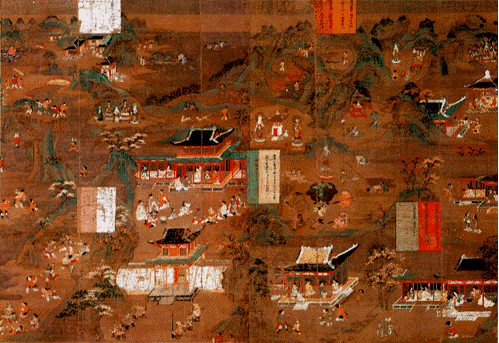 Kannon Sutra, Hondoji, Nakanoto, kept at Nara National Museum, Japan